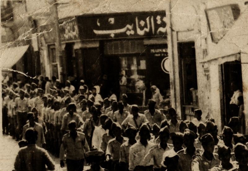 Egyptian Army parade in downtown Banha.